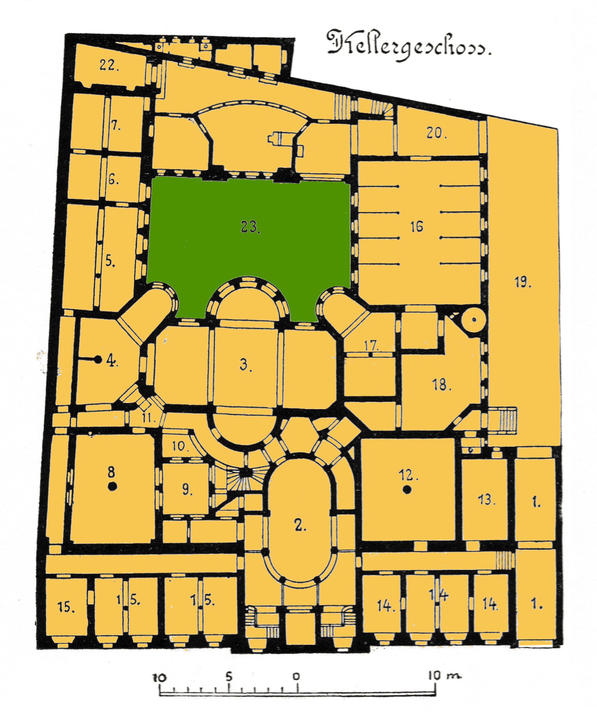 Berlin - plan basement of palais Strousberg at Wilhelmstraße 70 1 Passage 2 Servants dinning room 3 Kitchen 4 Accounts room 5 Laundry room with washing machine 6 Ironing room 7 Mangel room 8 Larder 9 Lightwell 10 Washroom 11 Elevator 12 Hot water heating 13 Wine cellar 14 Coachmans accomodation 15 Servants room 16 Stable 17 Tack room 18 Fodder room 19 Covered courtyard (Coachhouse) 20 Passage 22 Grotto 23 Courtyard